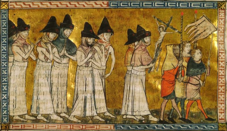 Miniature by Pierart dou Tielt illustrating the Tractatus quartus bu Gilles li Muisit (Tournai, c. 1353)